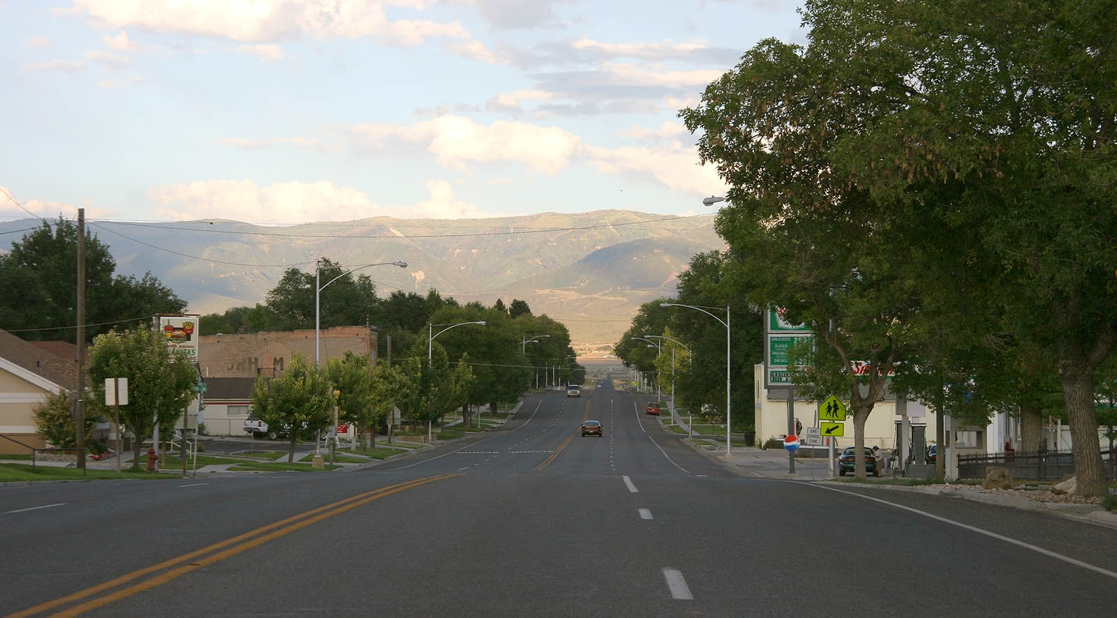 Photo taken by myself in August 2006.